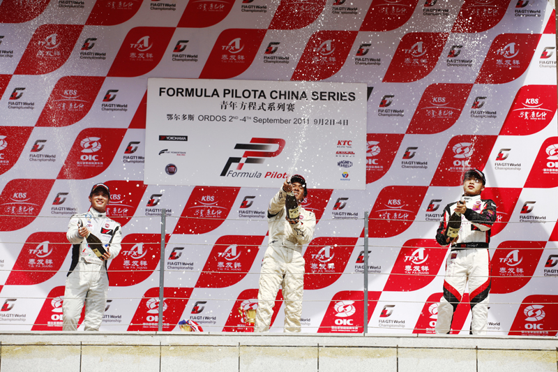 Podium